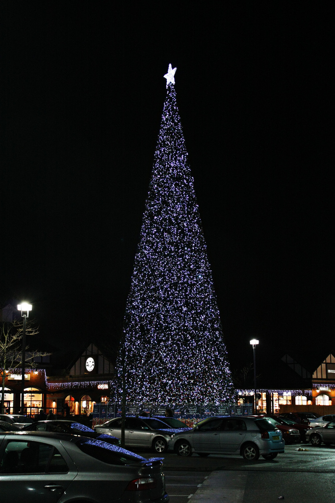 I'm told that this Christmas trees which stands in one of the car parks at the Outlet Village near Ellesmere Port, is the tallest in Europe. I can't say whether that is true or not but it is an impressive sight and kind of made the stop off at this temple to consumerism worthwhile.